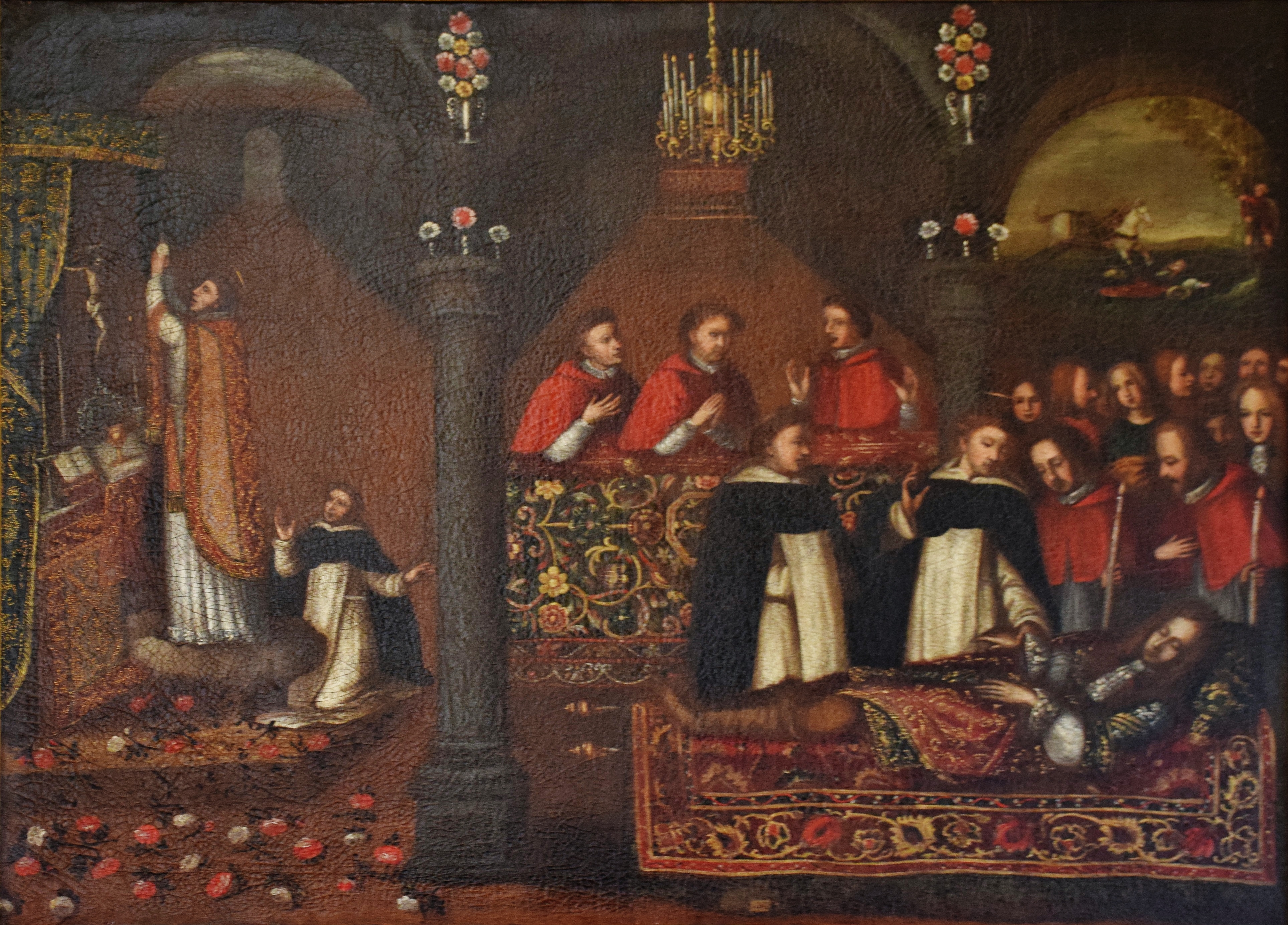 An 18th-century depiction of the death of Prince Afonso, the son and heir of King John II of Portugal, in Santarém, in 1491. The riding accident that killed the Prince is depicted on the upper right corner. The painting is in Sintra National Palace, in Sintra, Portugal.